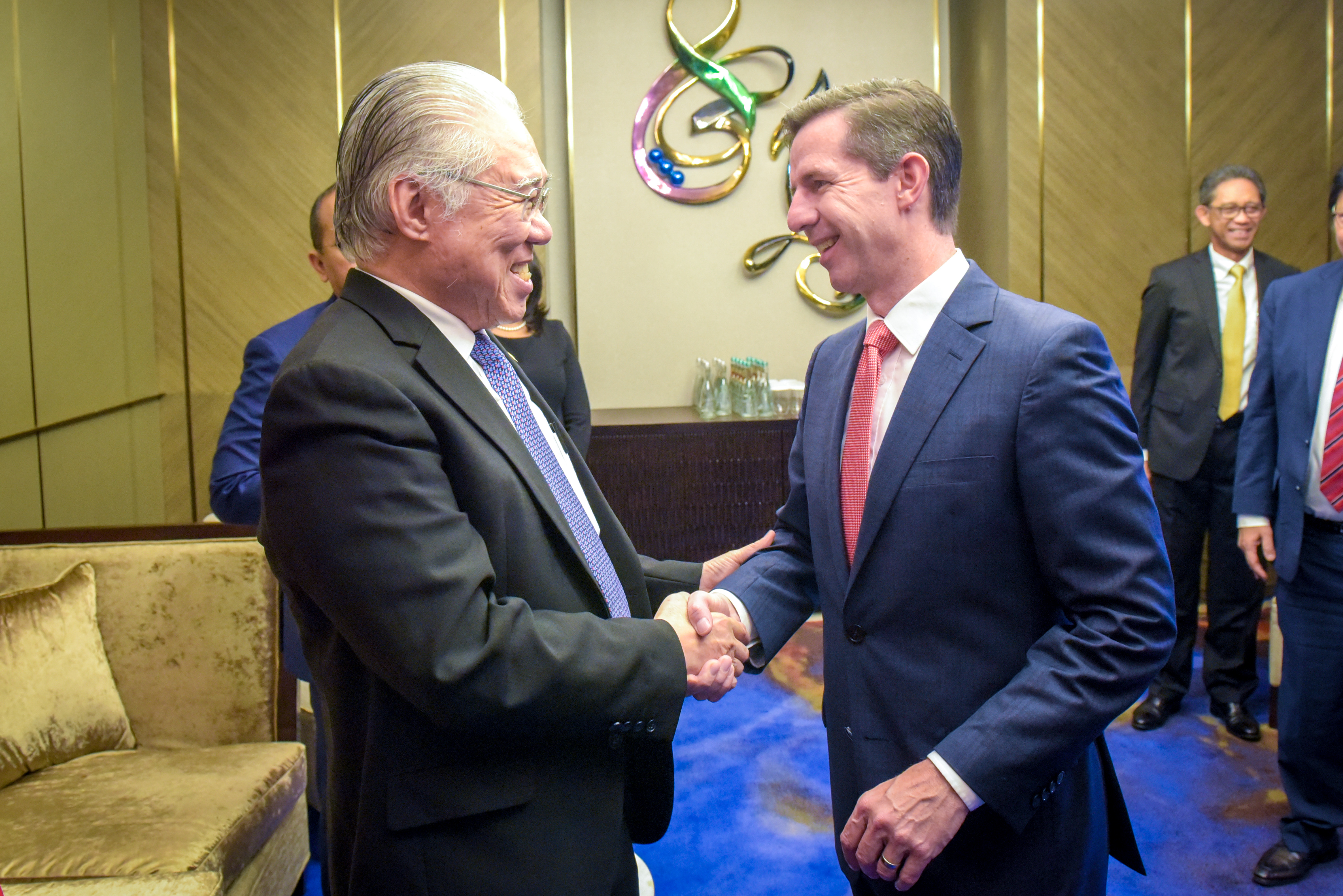 Indonesian trade minister Enggartiasto Lukita and his Australian counterpart Simon Birmingham shake hands